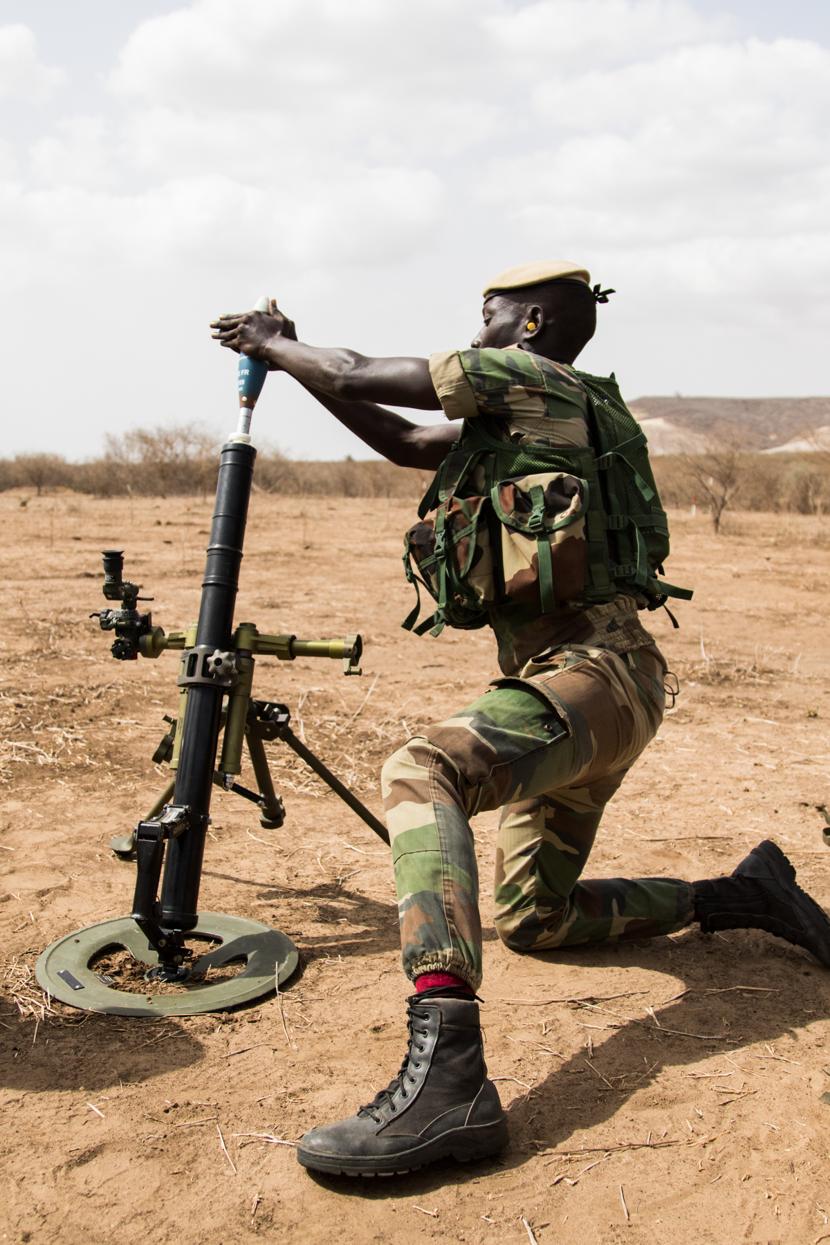 A Senegalese soldier of 1st Paratrooper Battalion drops a mortar into an M224 mortar system during a range July 18, 2016 in Thies, Senegal as part of Africa Readiness Training 16. ART16 is a U.S. Army Africa exercise designed to increase U.S. and Senegalese readiness and partnership through combined infantry training. (US Army Photo by Spc. Craig Philbrick)